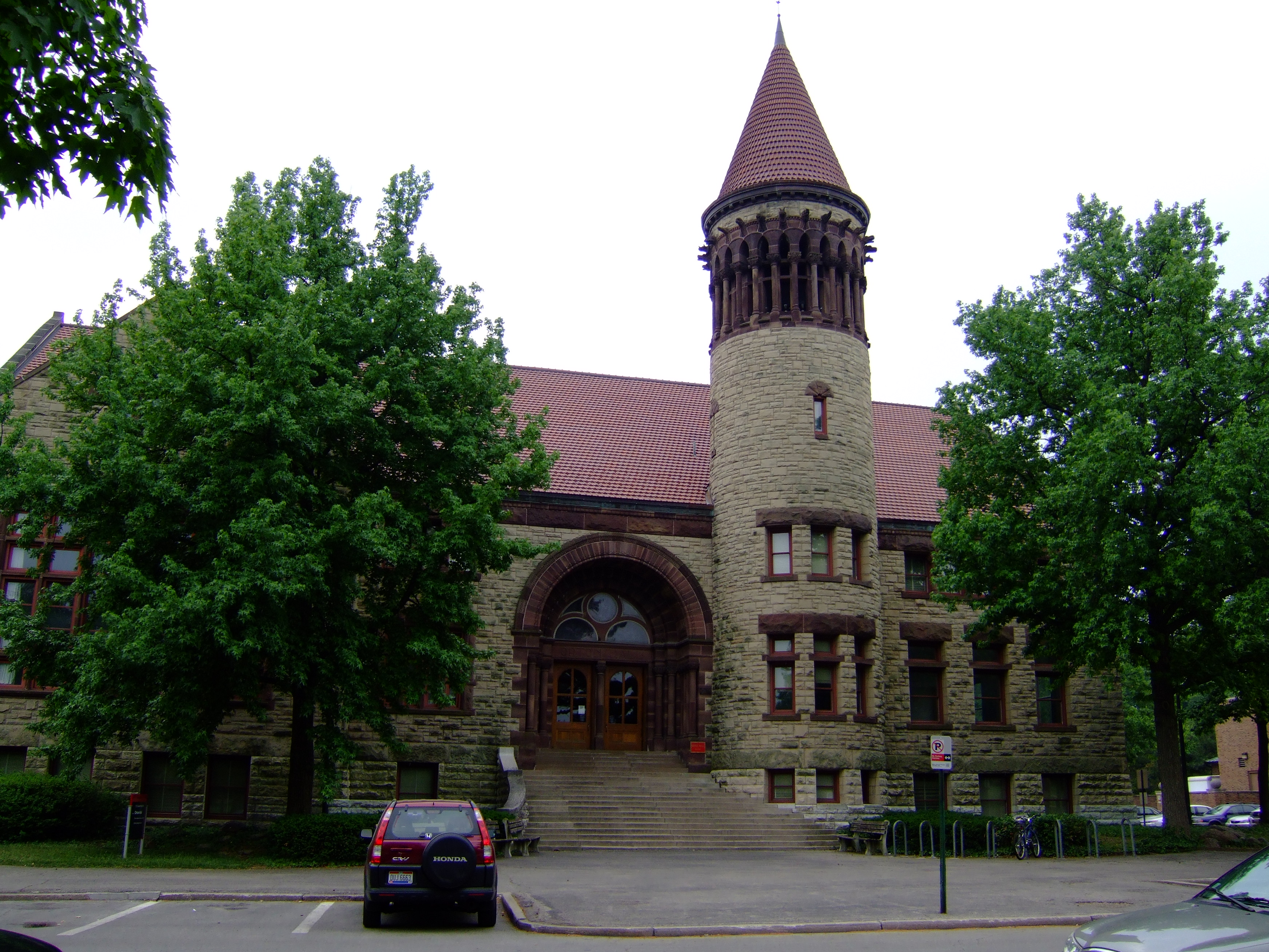 Orton Hall on the campus of The Ohio State University. Home to the Geology Department, the various types of stone on the exterior of the building represent the strata of rocks commonly found in Ohio.